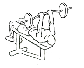 an exercise of triceps